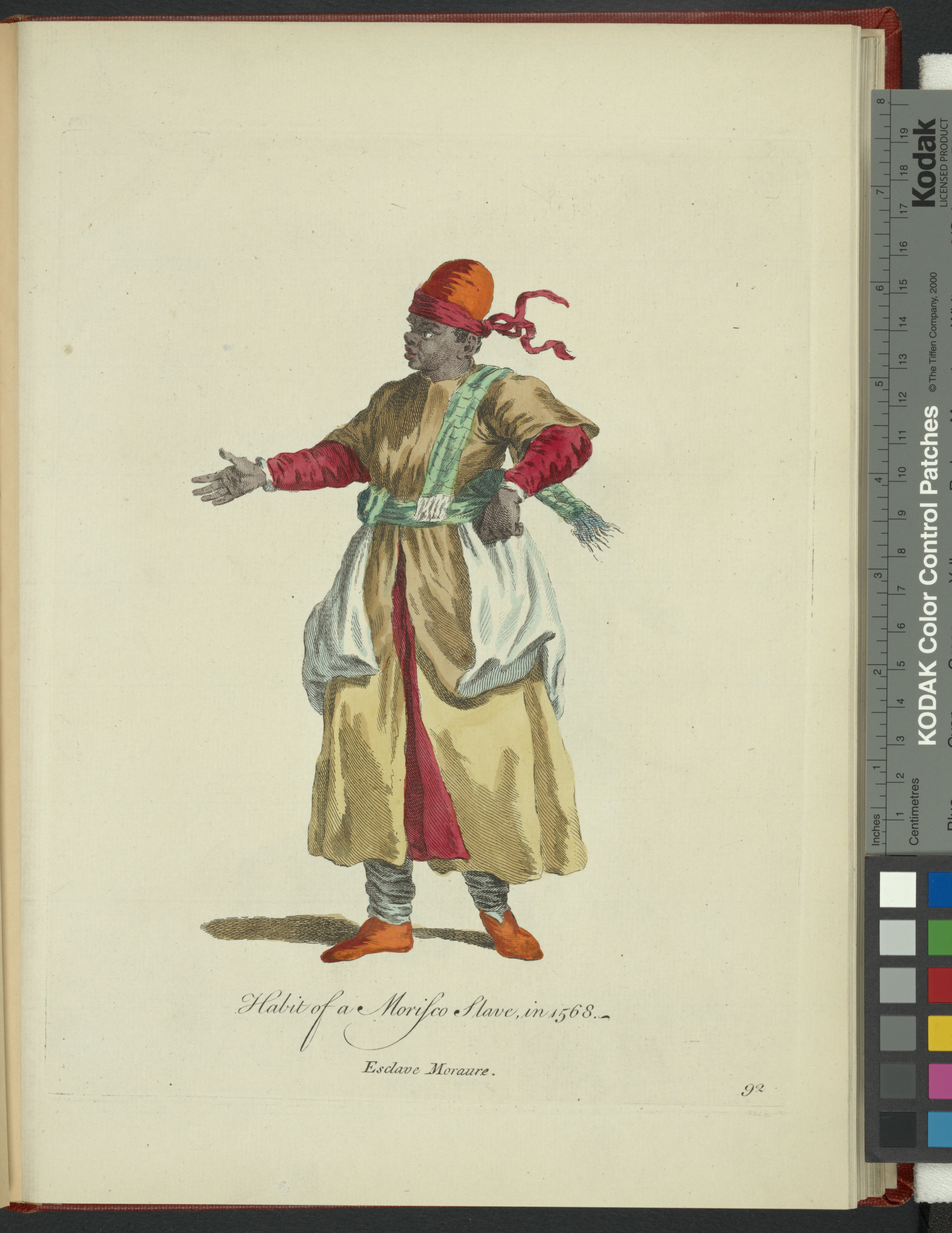 Habit of a morisco slave in 1568. Esclave moraure.